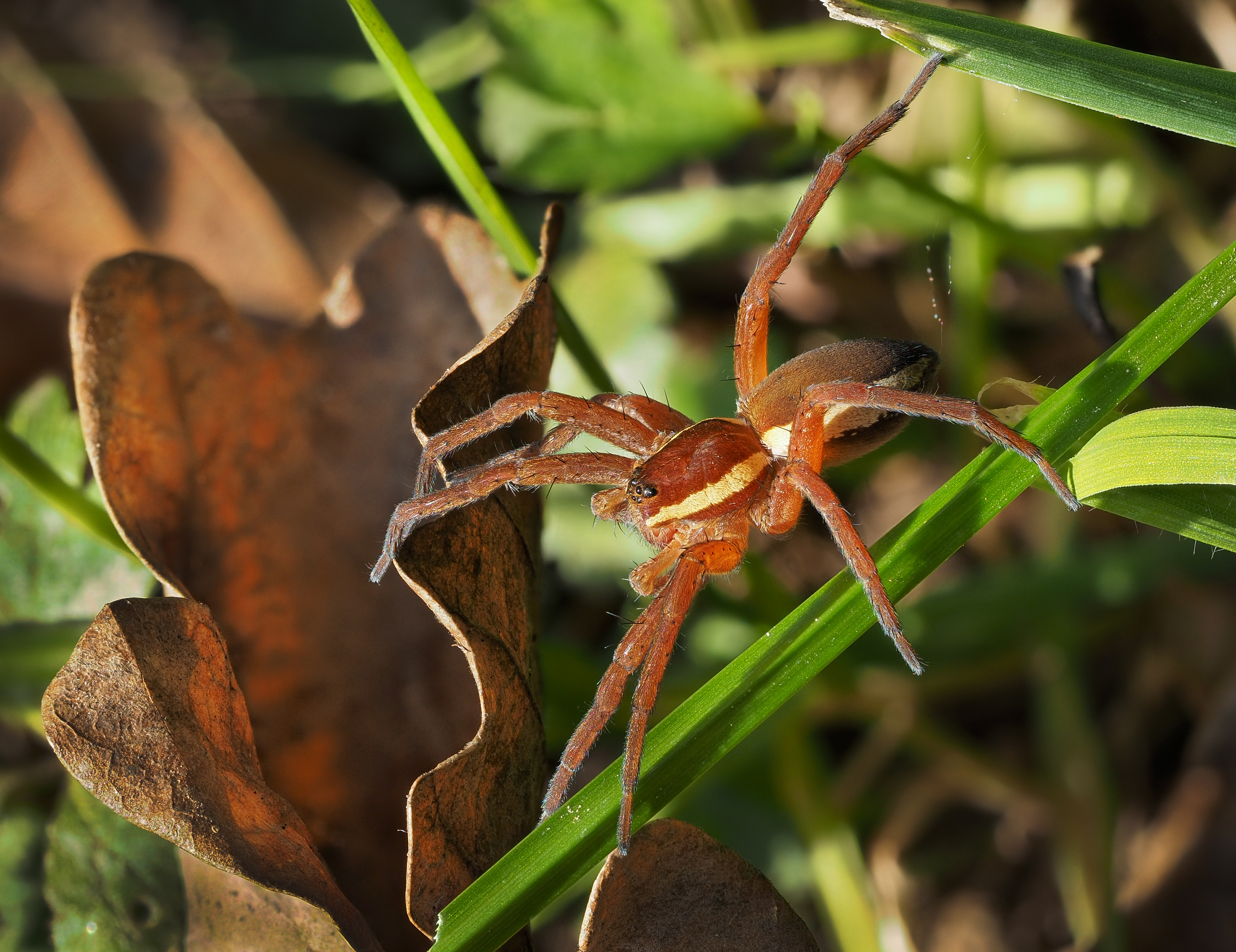 Nursery web spider, Dolomedes sp. (Pisauridae) a close family of Lycosidae, found in grass near Golovec forest, Slovenia. Size of body below 2 cm. This photograph was taken with an Olympus E-M1